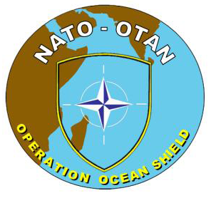 Operation Ocean Shield badge